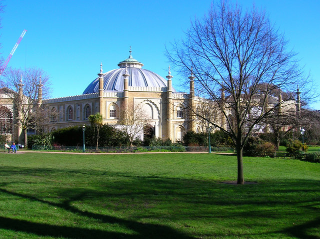 The Dome from Pavilion Gardens The former stables of the Brighton Pavilion (out of picture to the right) is now subdivided between the city's museum and concert hall.